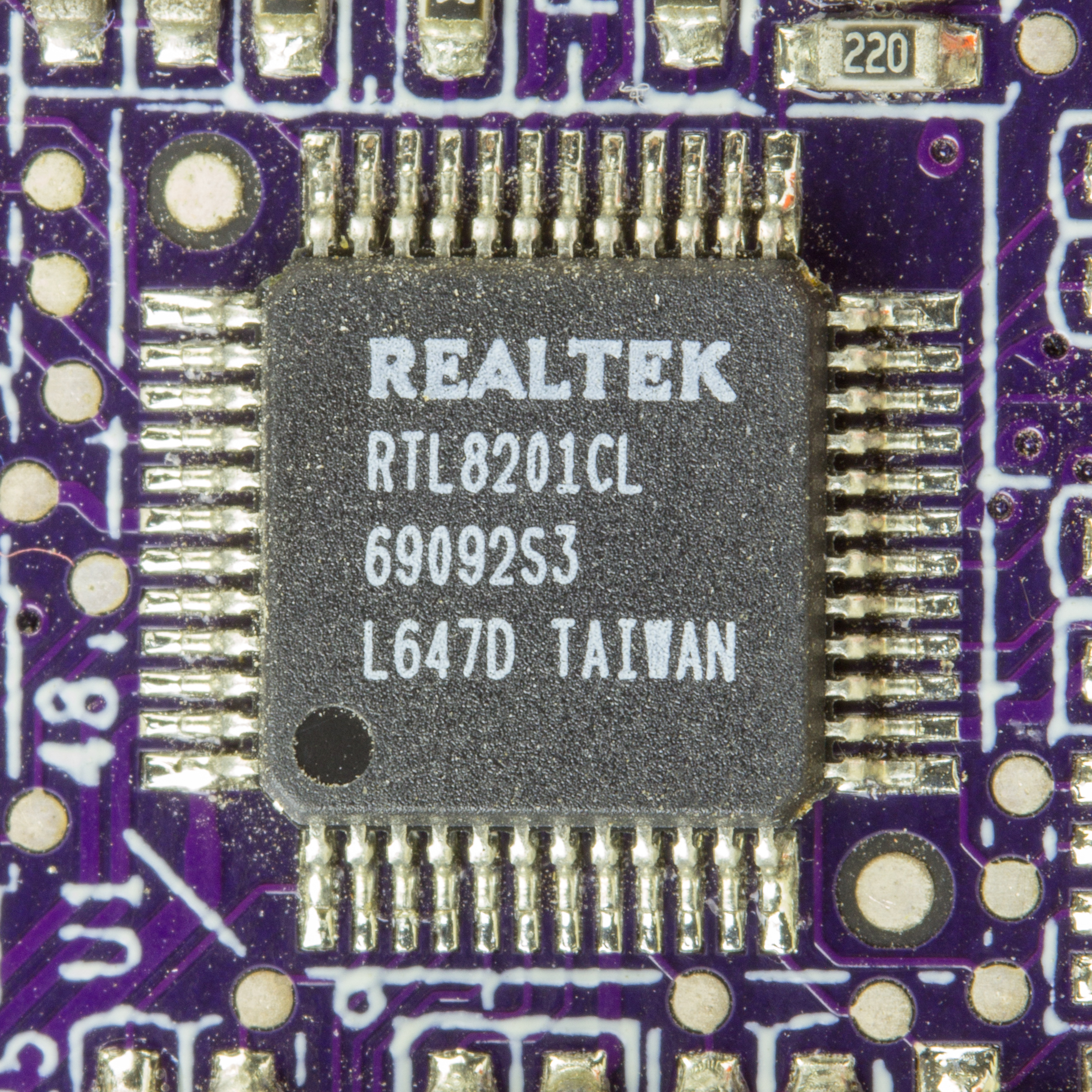 Elitegroup 761GX-M754 - Realtek RTL8201CL - Single Chip Single Port 10/100M Fast Ethernet Phyceiver